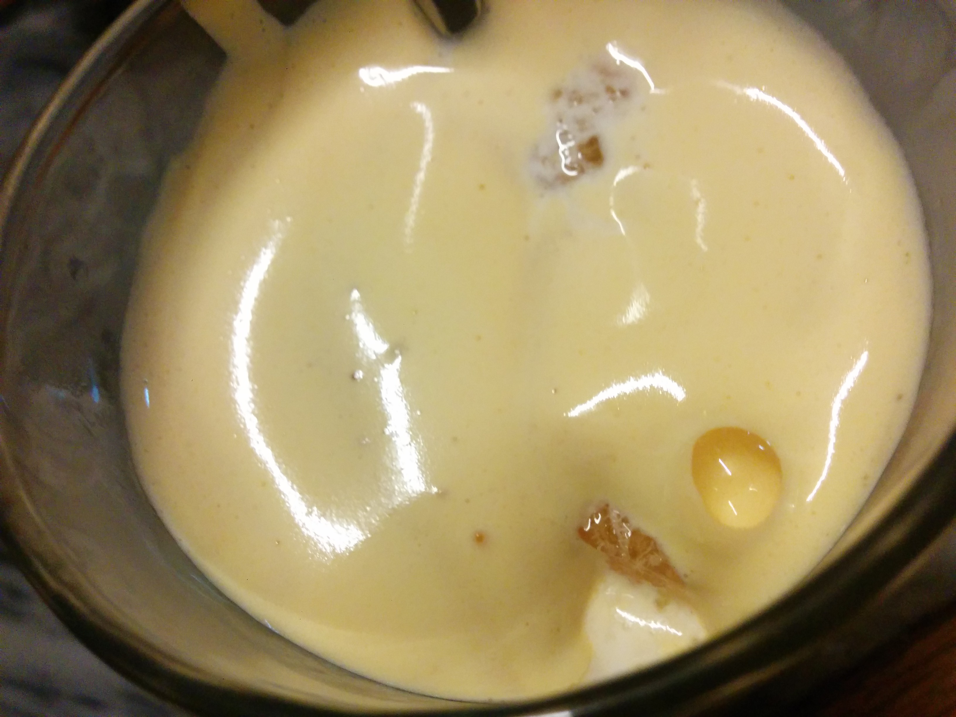 Mentioned at